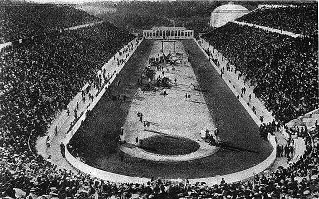 Stadium from the 1906 "Olympic Games" in Athens (not an official Olympiad)